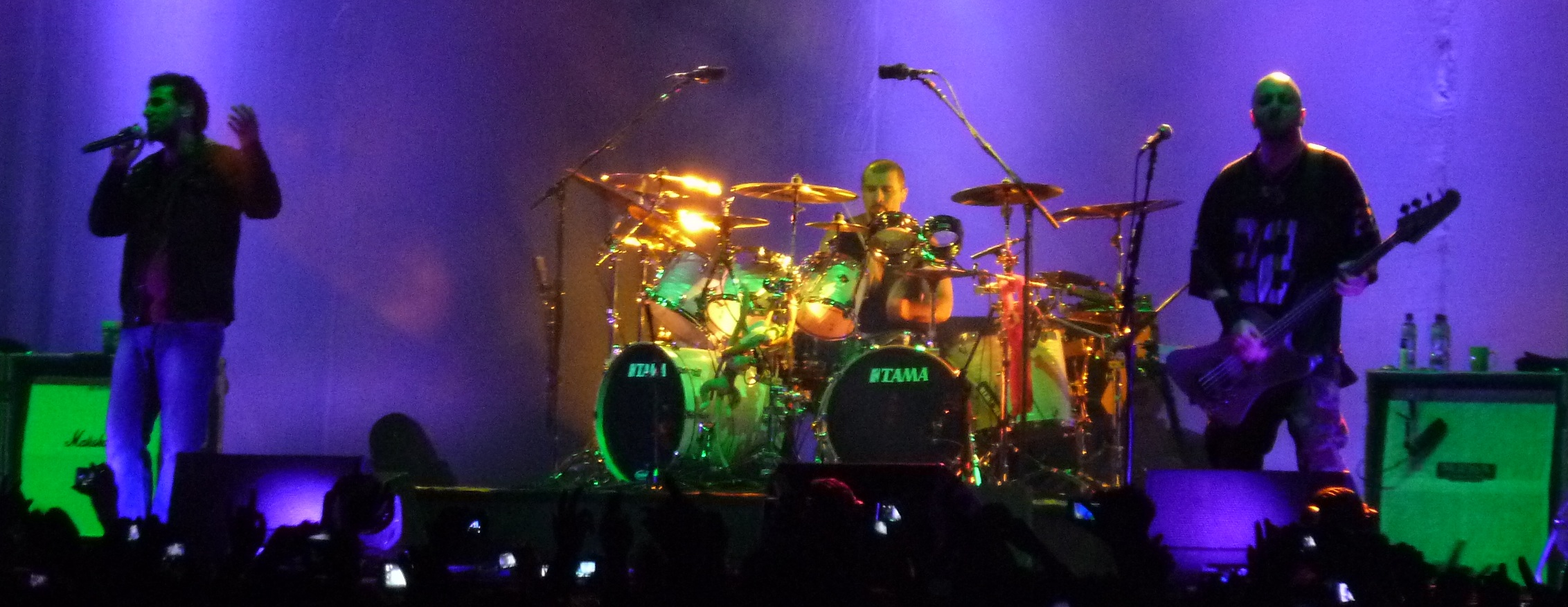 System of a Down in Chile on October 7, 2011.